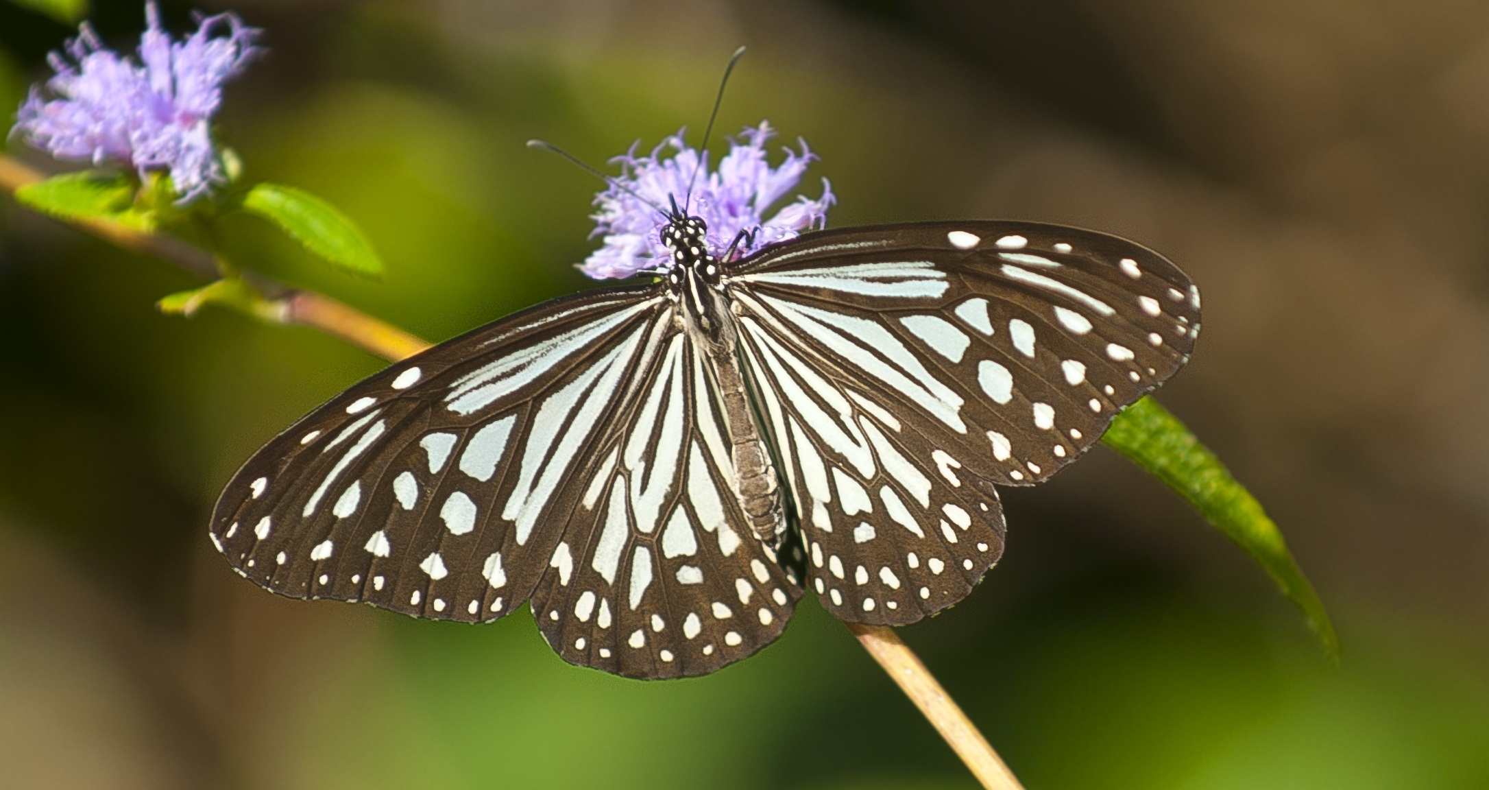 The Glassy Tiger (Parantica aglea) is a butterfly found in India that belongs to the Crows and Tigers, that is, the Danaid group of the Brush-footed butterflies family (Nymphalidae). Spotted from Mhadei WLS Goa.